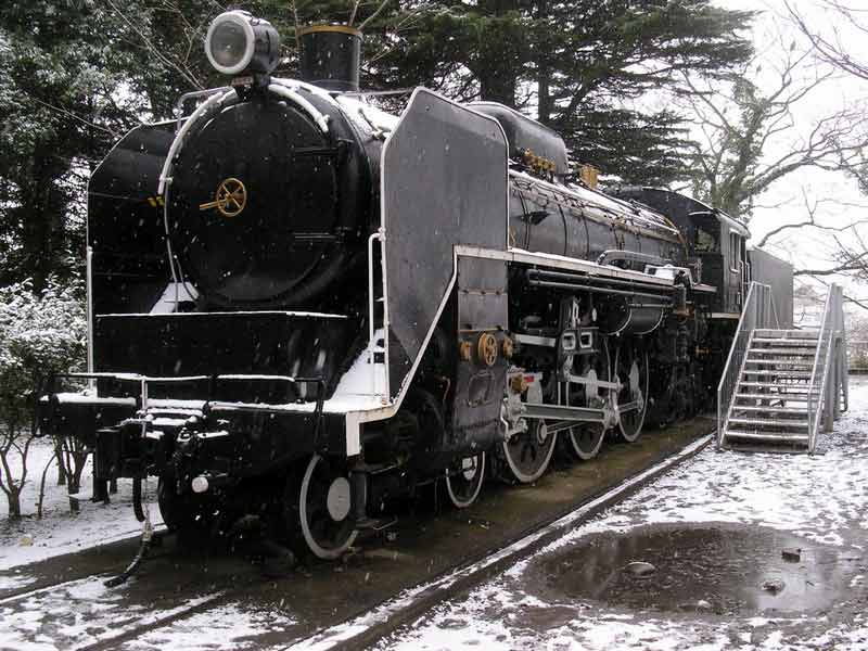 Japanese steam locomotive class C60 - C 60 1 in Sakuragaoka park in Sendai, Japan